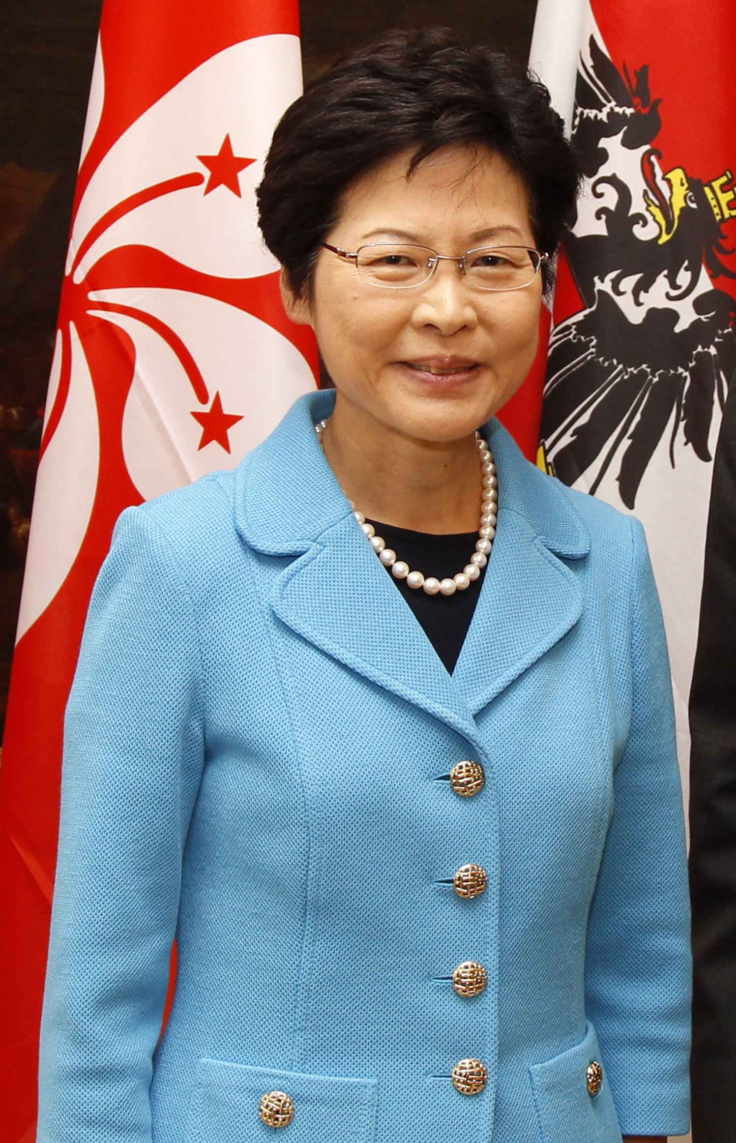 Carrie Lam Cheng Yuet-ngor, Chief Secretary for Administration of Hong Kong Government.